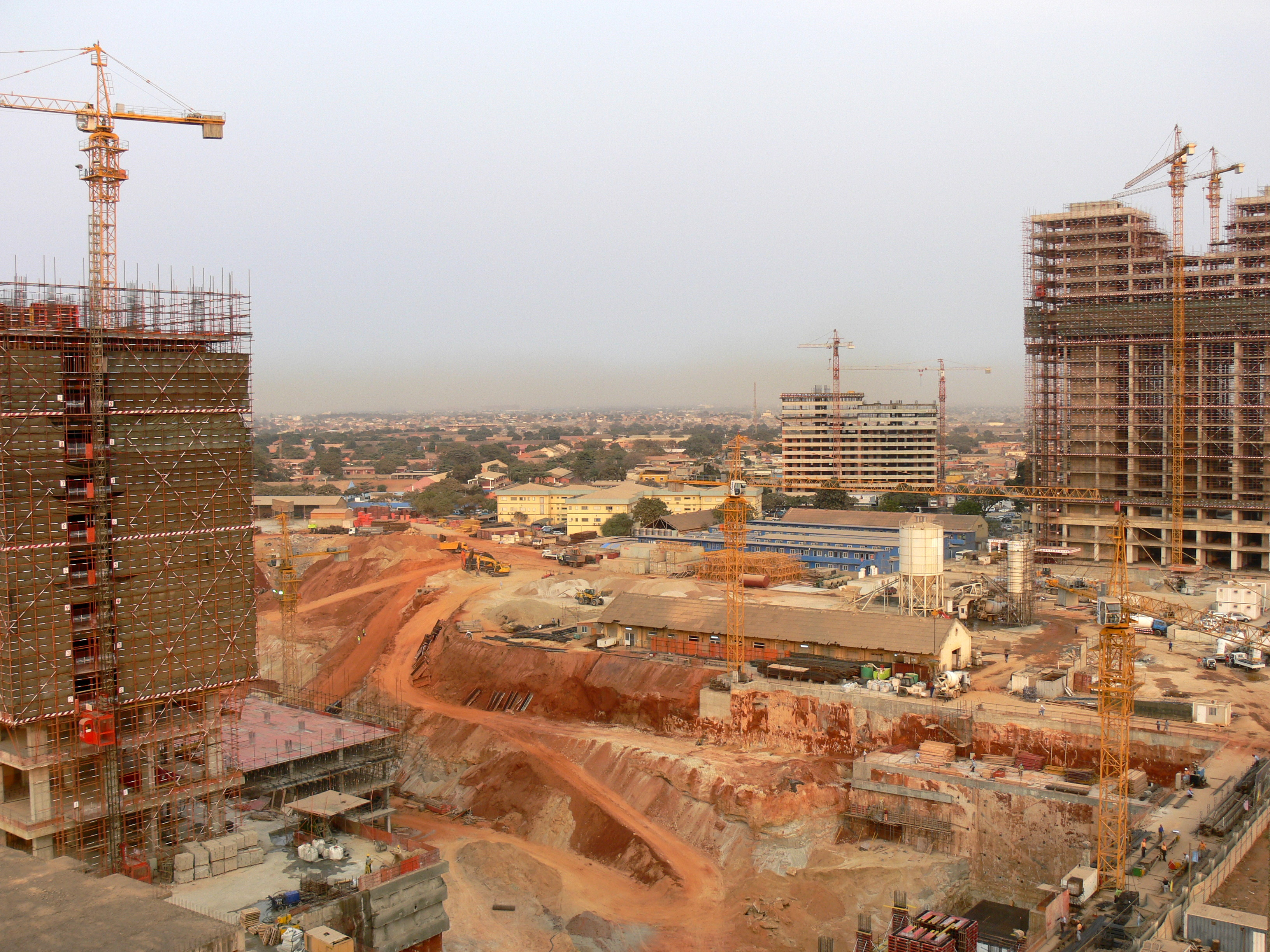 Construction site near Hotel Alvalade in Luanda, Angola